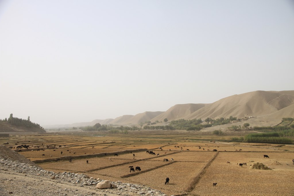 Animals grazing in fields by the road in northern Afghanistan